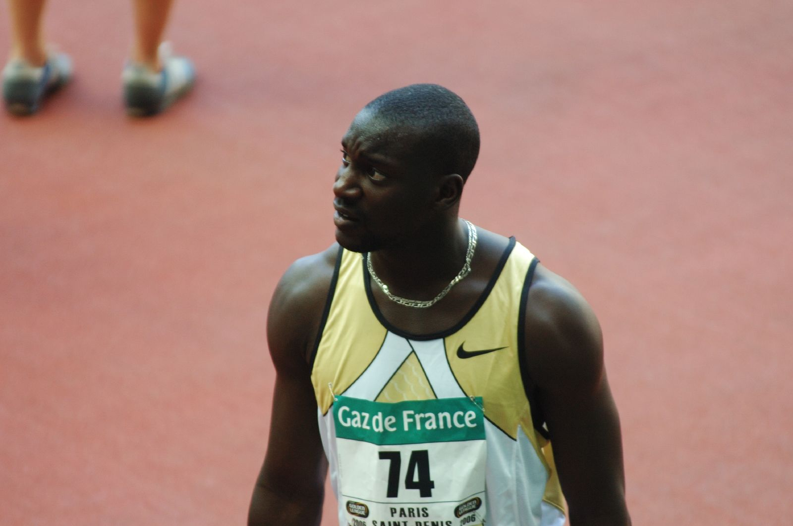 Ladji Doucoure Meeting Gaz de France 2006